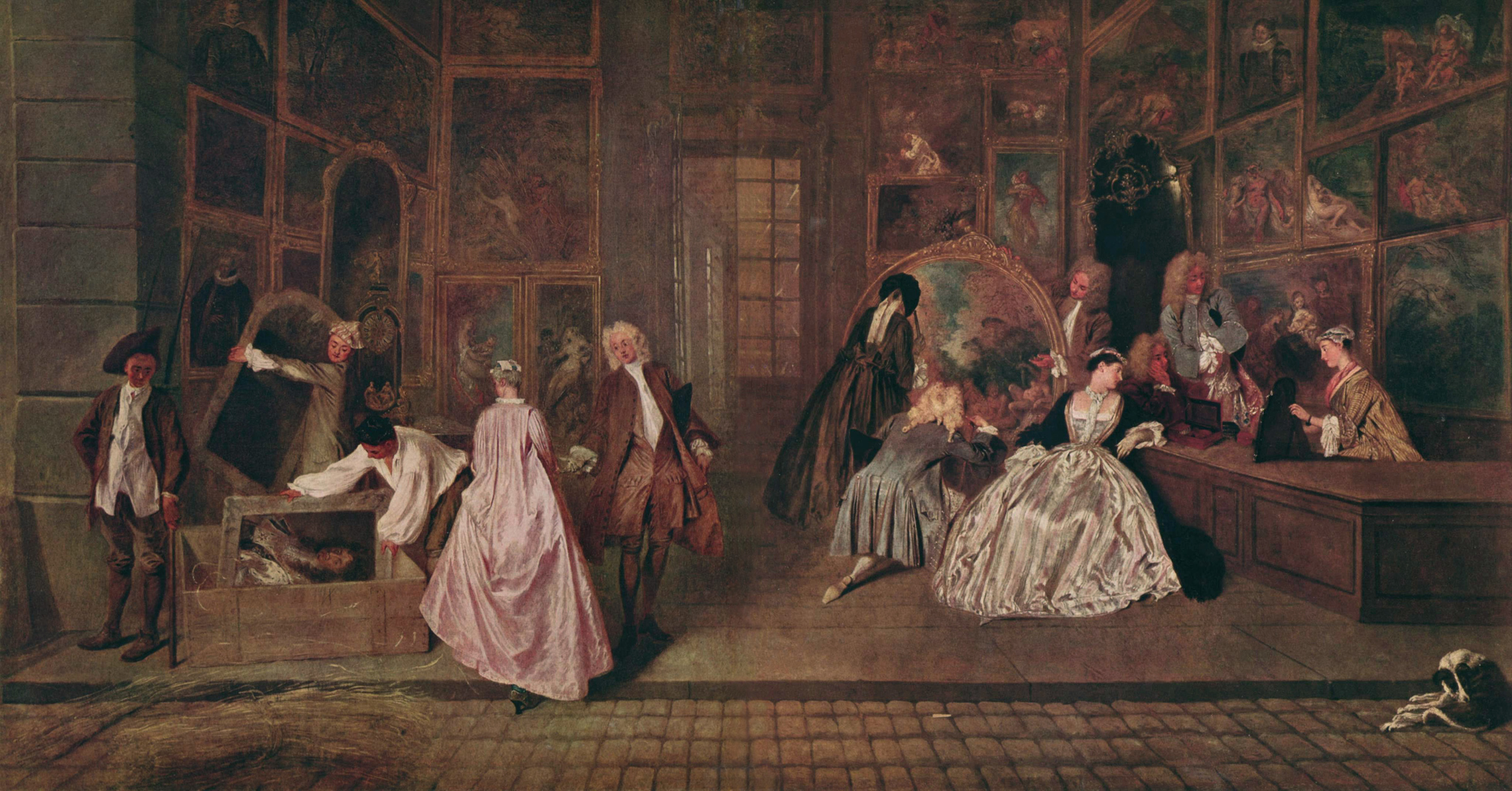 left part of the signboard of the arts dealer Gersaint